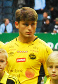 Arber Zeneli